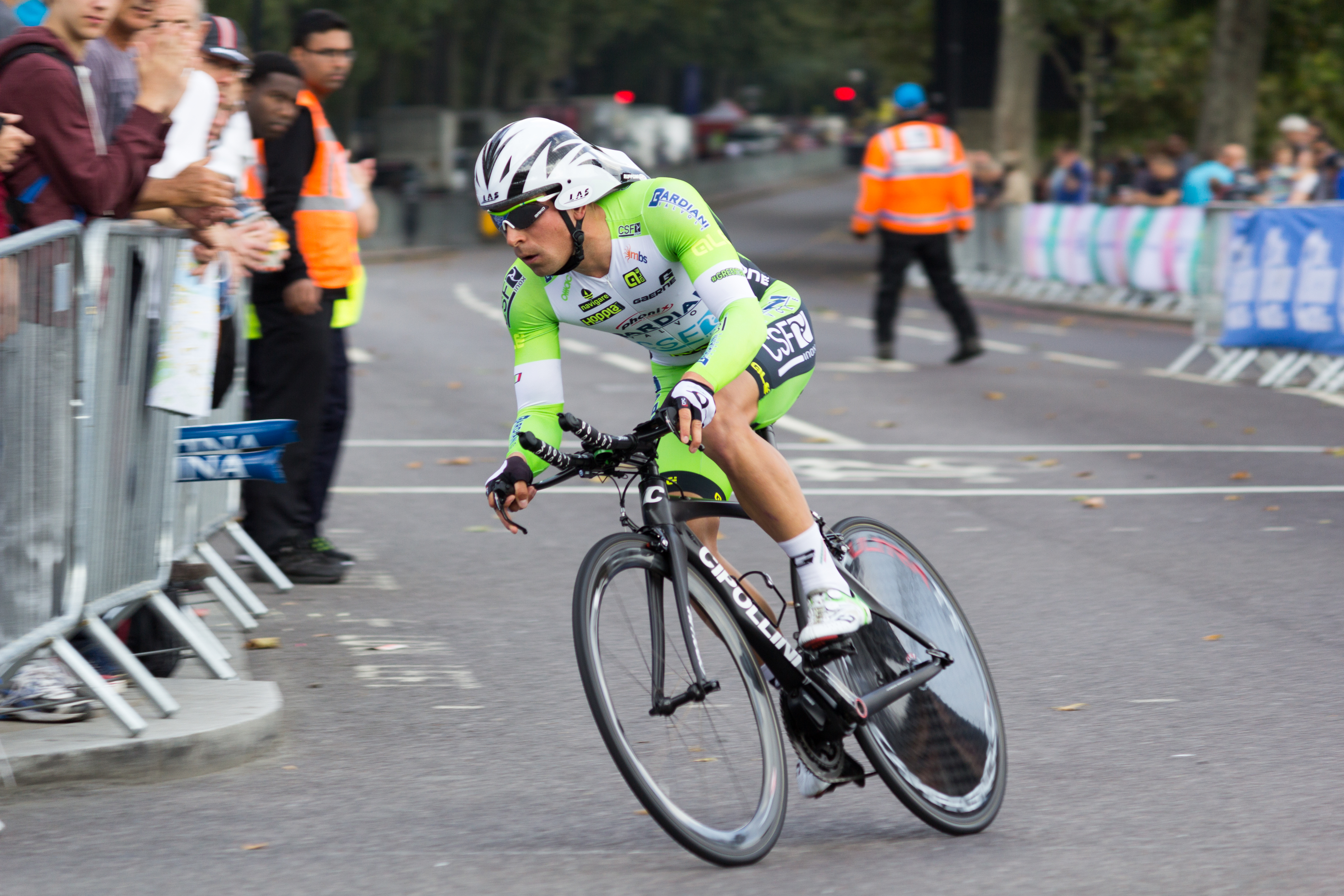 Tour of Britain 2014 stage 8a - London time trial